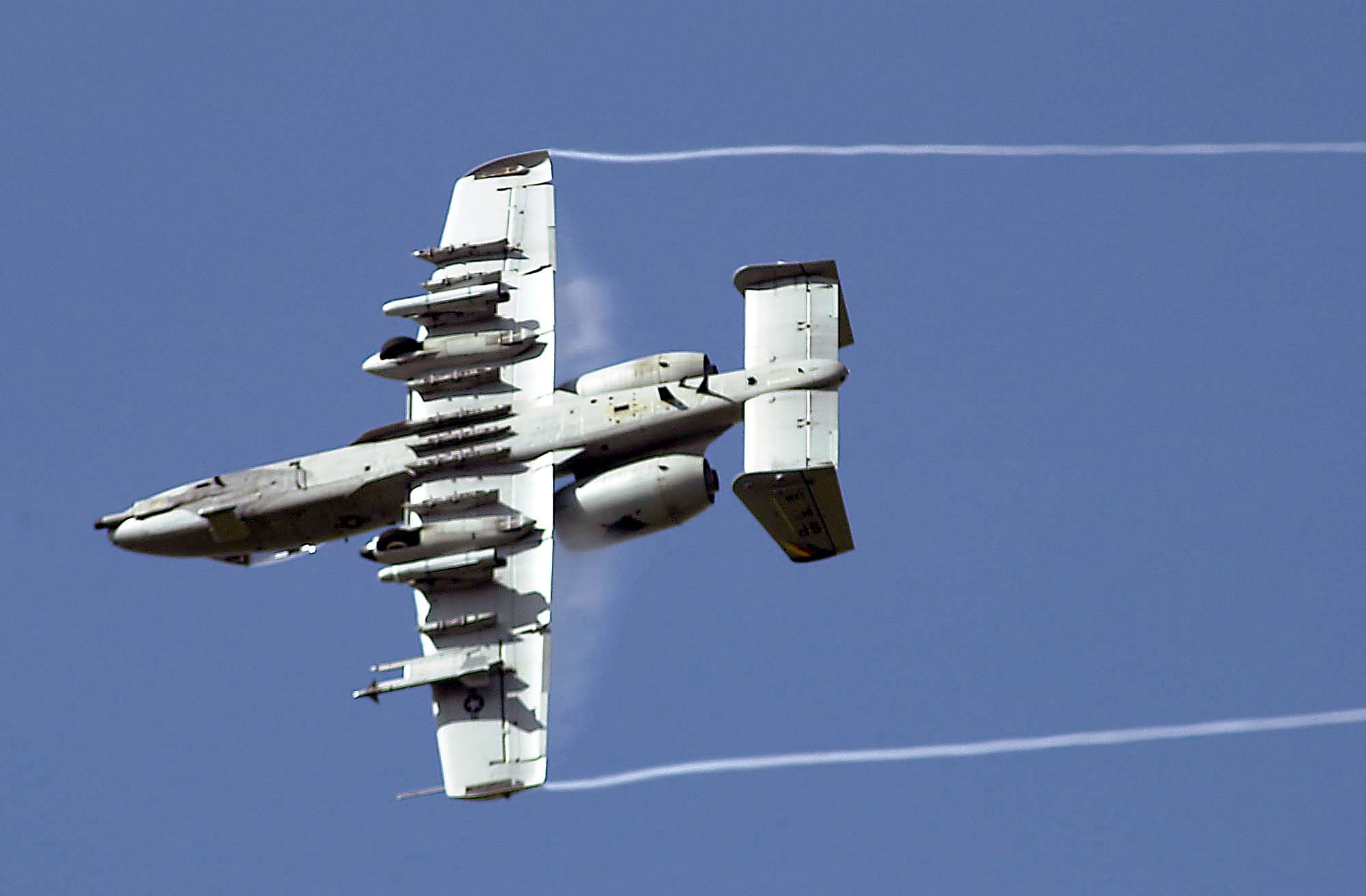 ROYAL AIR FORCE MILDENHALL, England -- An A-10 Thunderbolt II rolls to mark a target with simulated M-156 white phosphorus rockets as part of an aerial demonstration held here. The demonstration was for visiting U.S. civic, business, and industry leaders on the 2003 Joint Civilian Orientation Course.